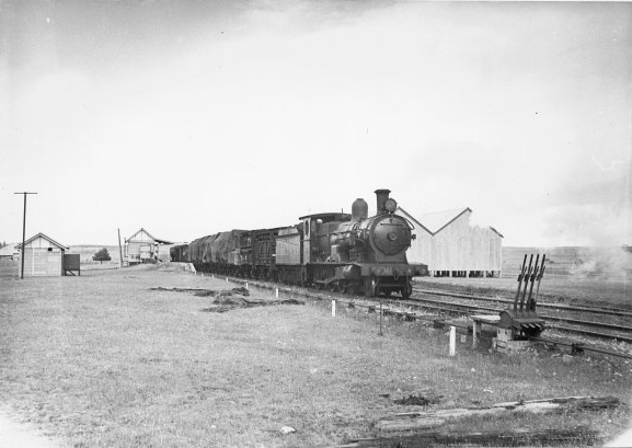 Locomotive stands 3361 at Taralga Railway Station, New South Wales with a mixed train in 1946